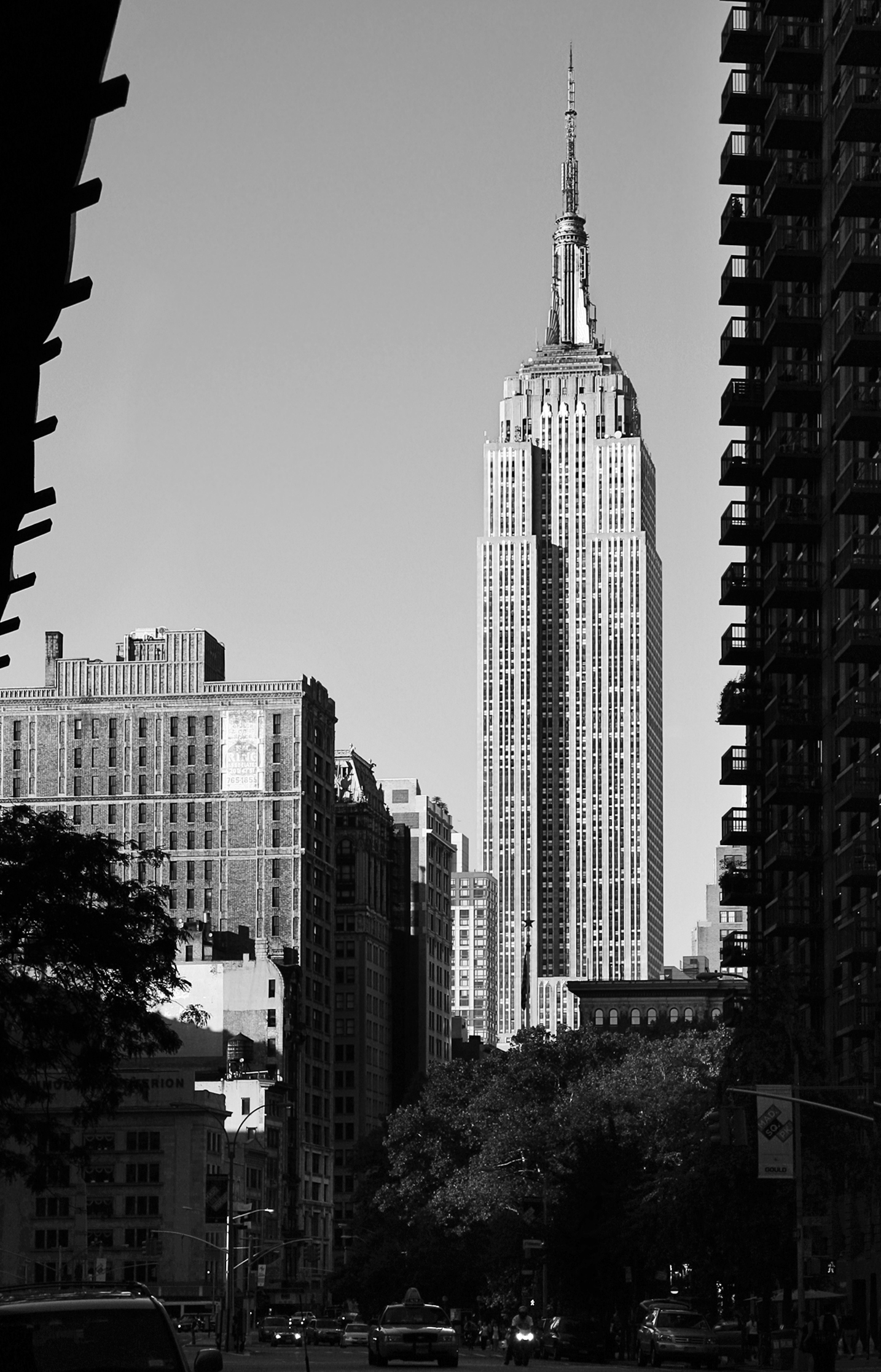 Empire State Building, New York City